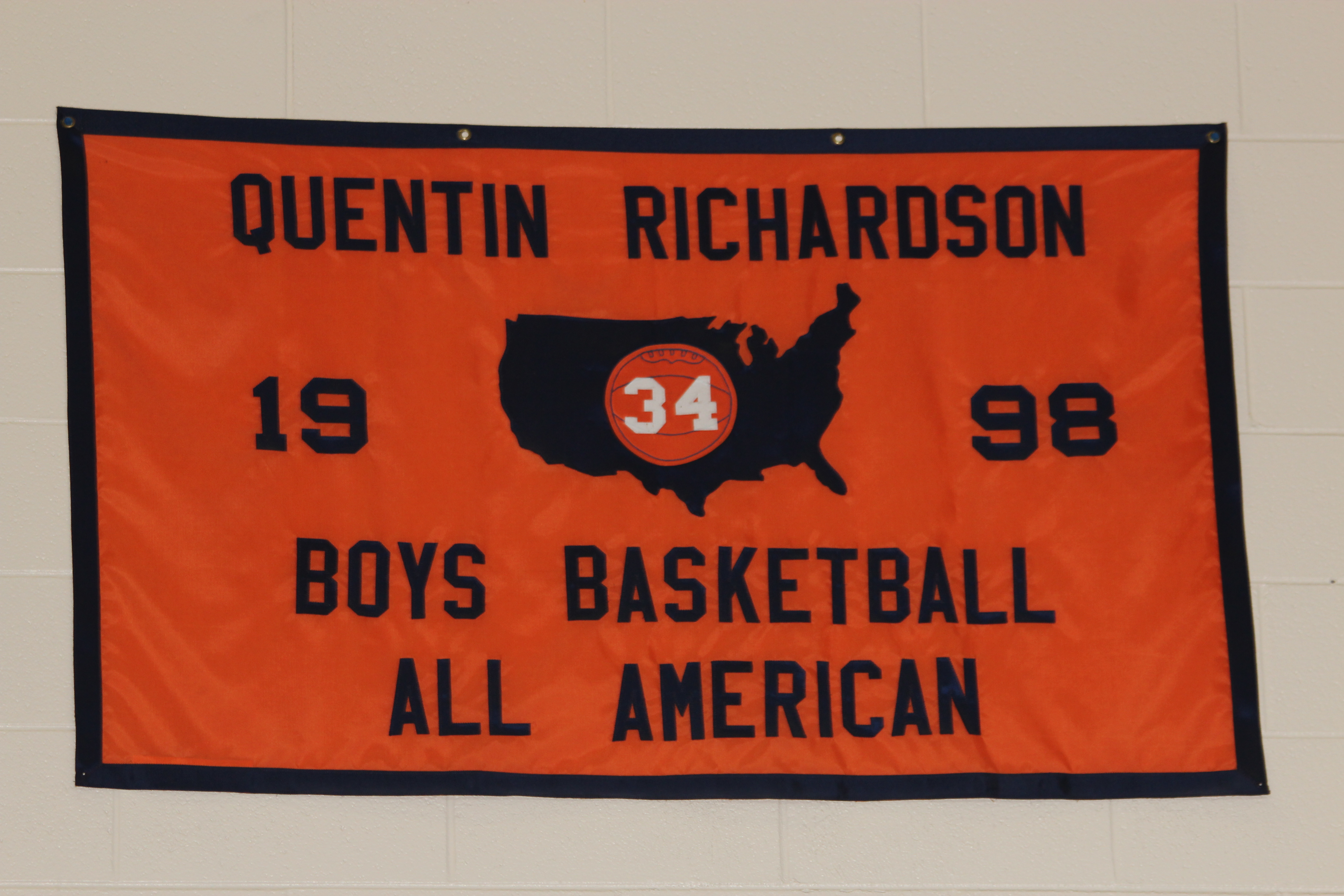 Quentin Richardson banner